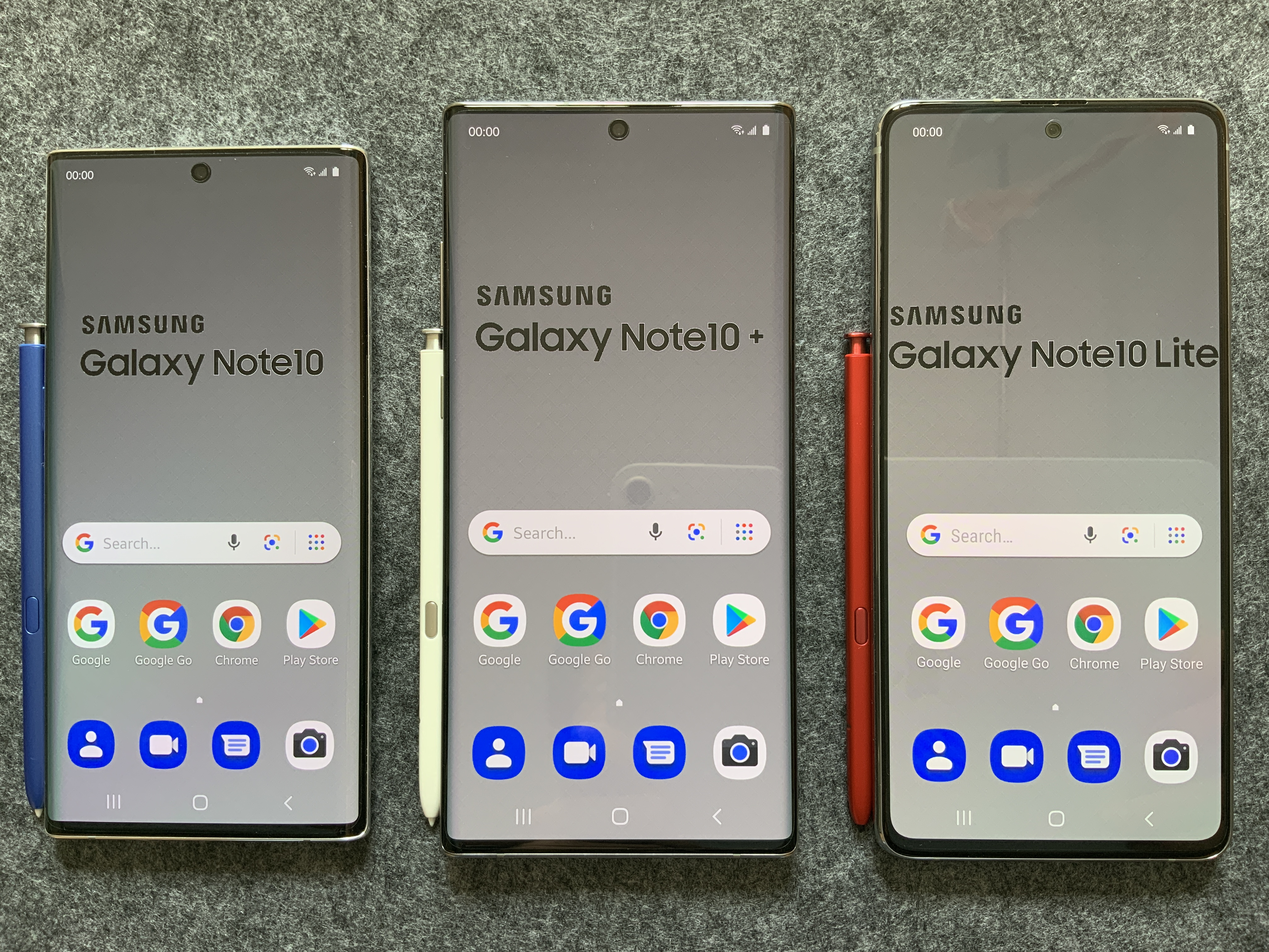 SAMSUNG Galaxy Note10 SAMSUNG Galaxy Note10+ SAMSUNG Galaxy Note10 Lite